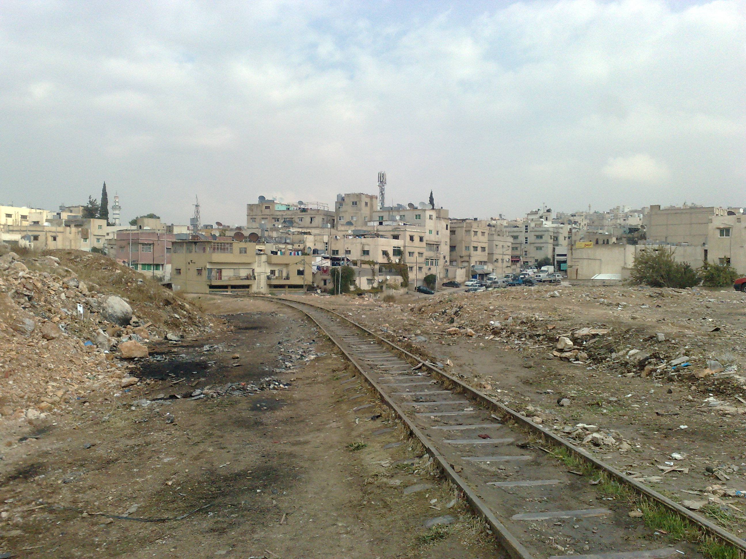 A view of a rundown neighborhood in Jwaideh in East Amman, mostly populated by Palestinian refugees